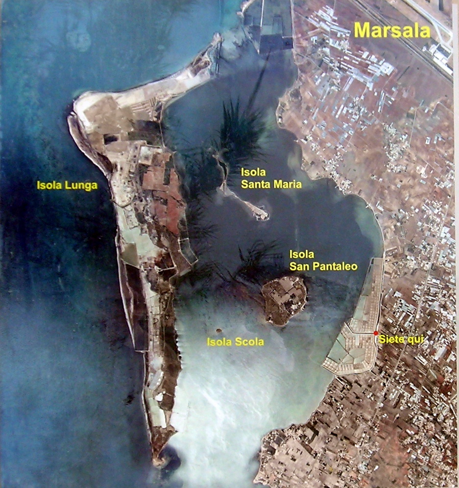 Islands of the Stagnone (Marsala, Trapani, Sicily)